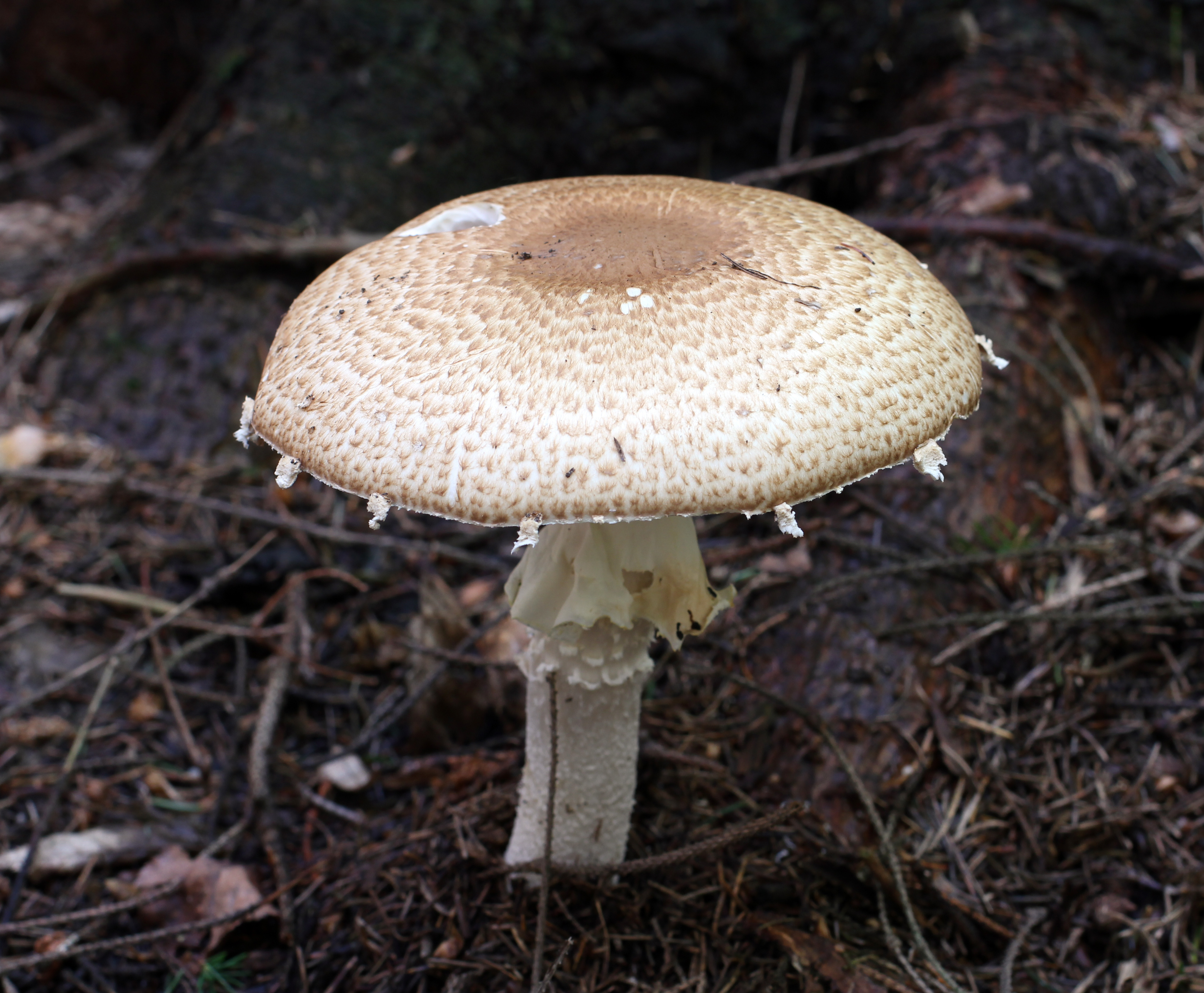 The prince (Agaricus augustus). Ukraine.